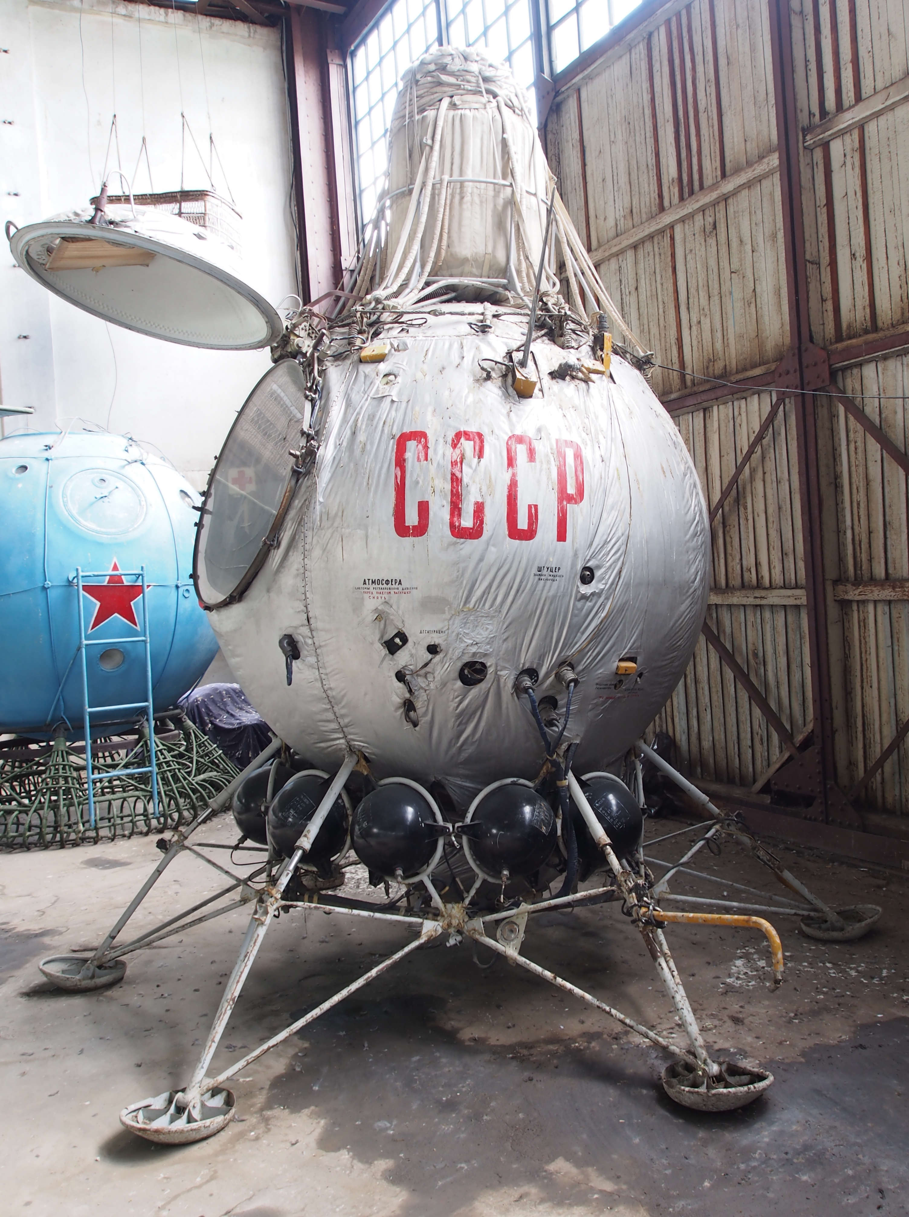 Photographed at the Central Air Force Museum, Monimo, Russia.